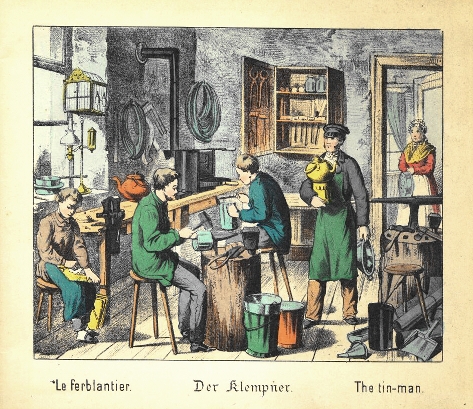 The tin-man